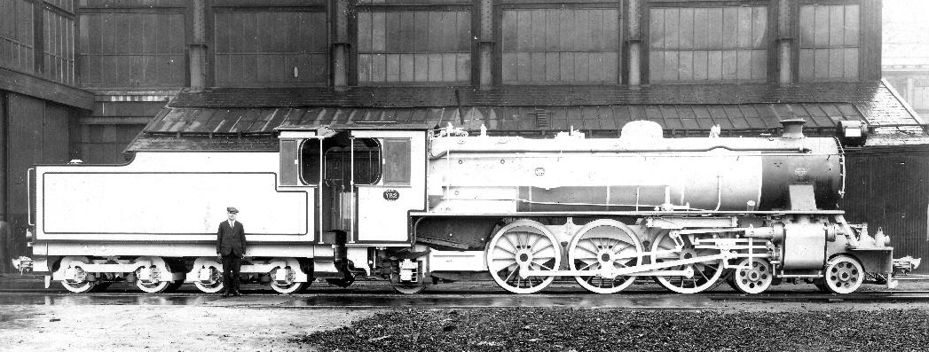 South Indian Railway YB class 4-6-2 as built at Vulcan Foundry (cropped version)